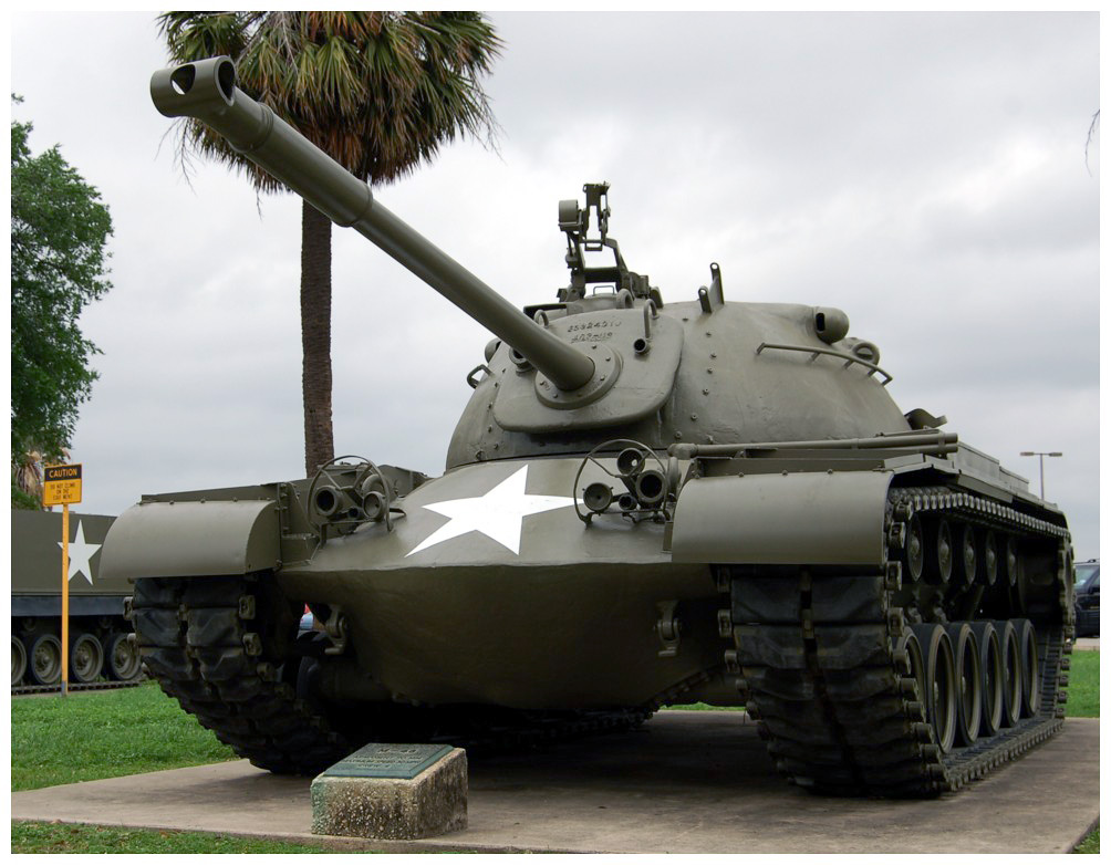 M48 Patton Tank (90mm) on display at Fort Sam Houston, Texas (March 2007). Photo by Peter Rimar.